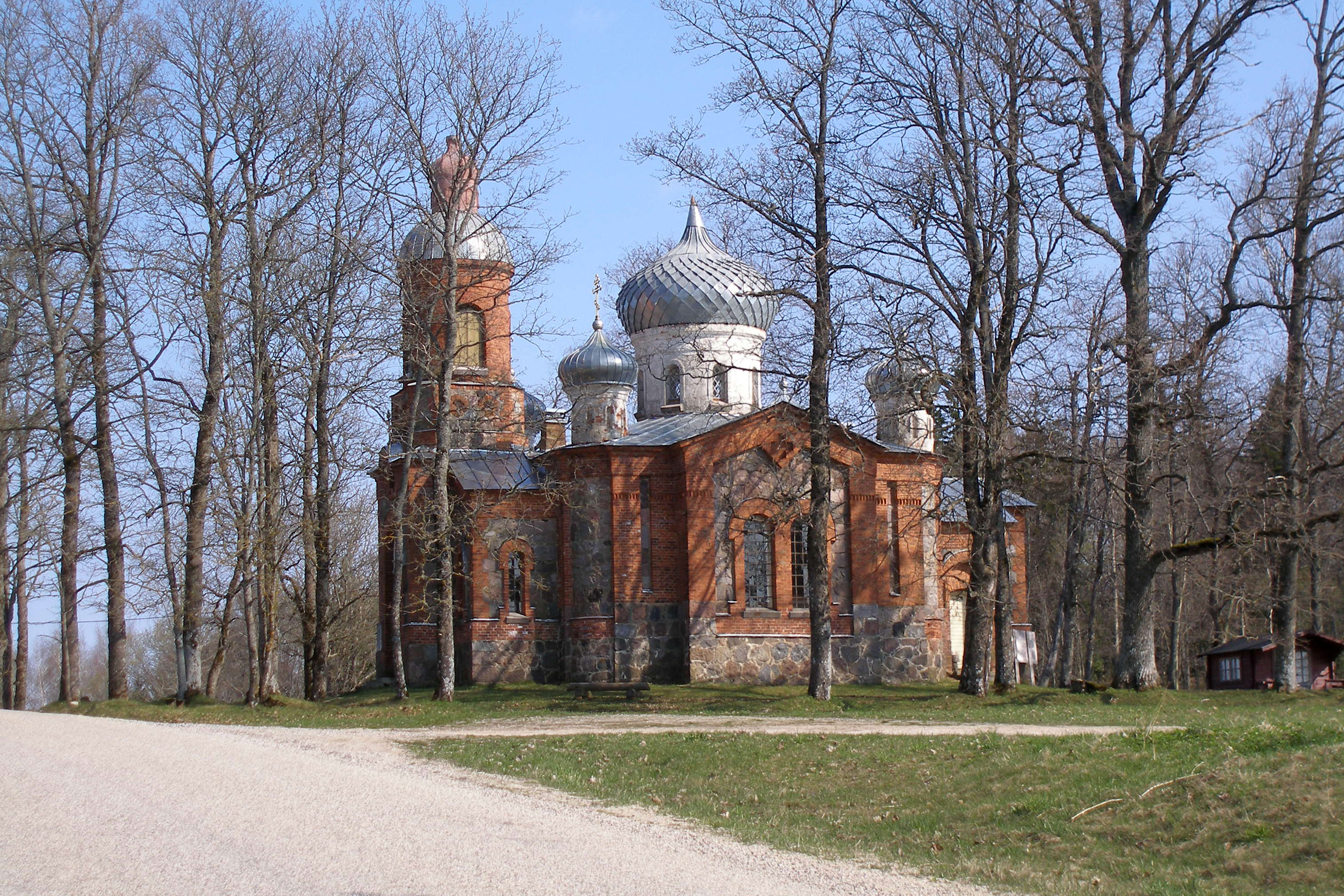 Plaani church in Võru County, Southeast Estonia.